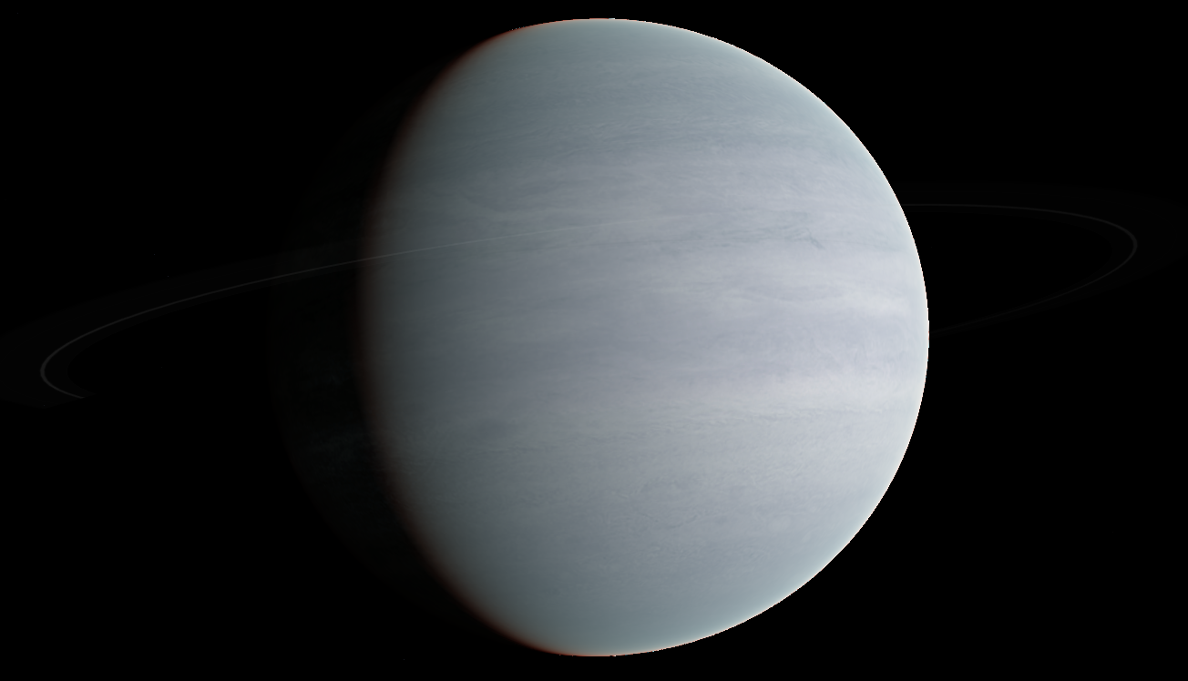 Exoplanet HD 28185 b (discovered 2001, min mass 5.7MJ), one of the first exoplanets found in a habitable, near-circular Earth-like orbit around a sun-like star. Likely a Sudarsky Type II gas giant with water-ice cloud cover and potentially able to host massive, habitable moons. Generated with Celestia.